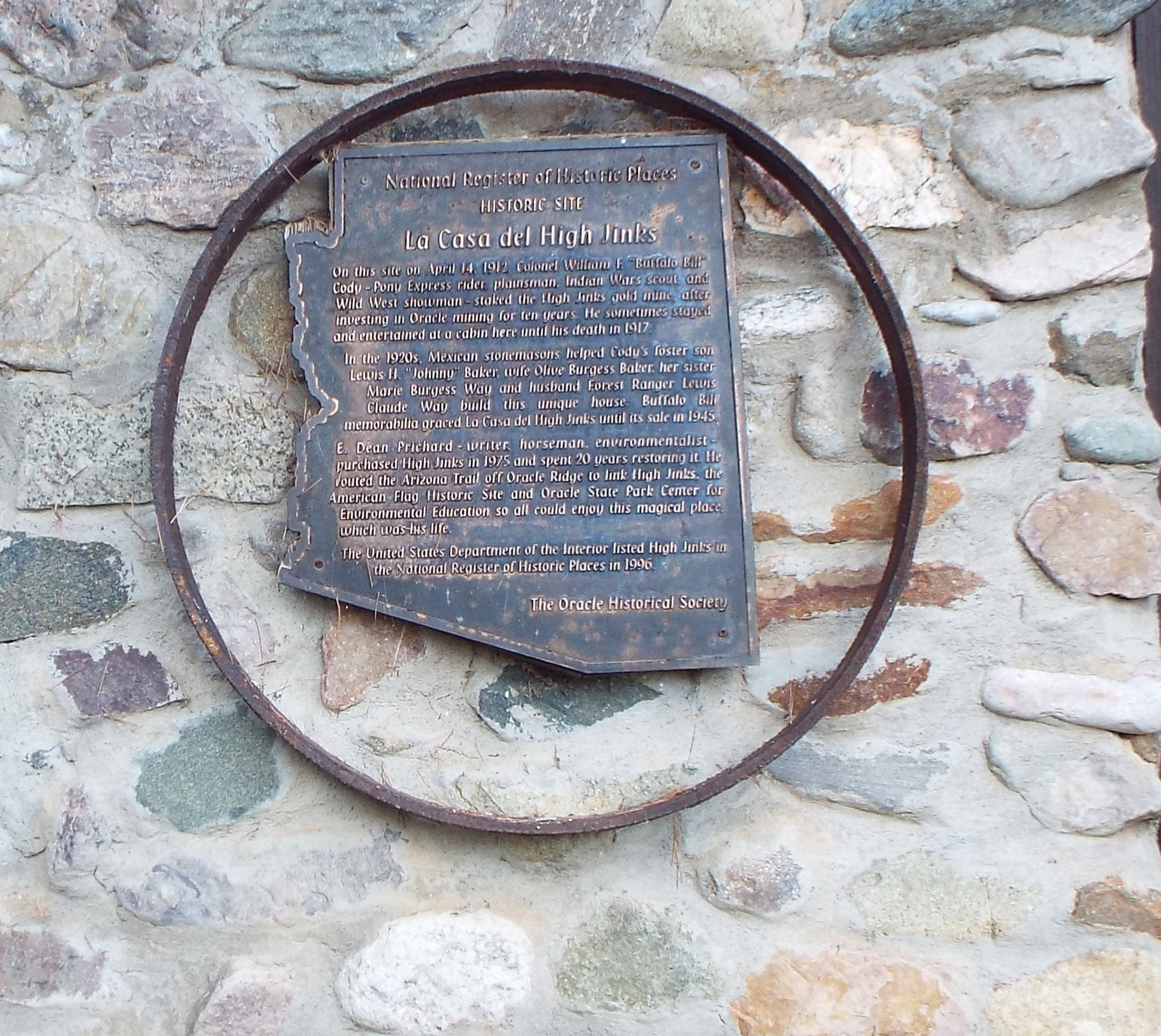 La Casa del High Jinks in Oracle. Az.